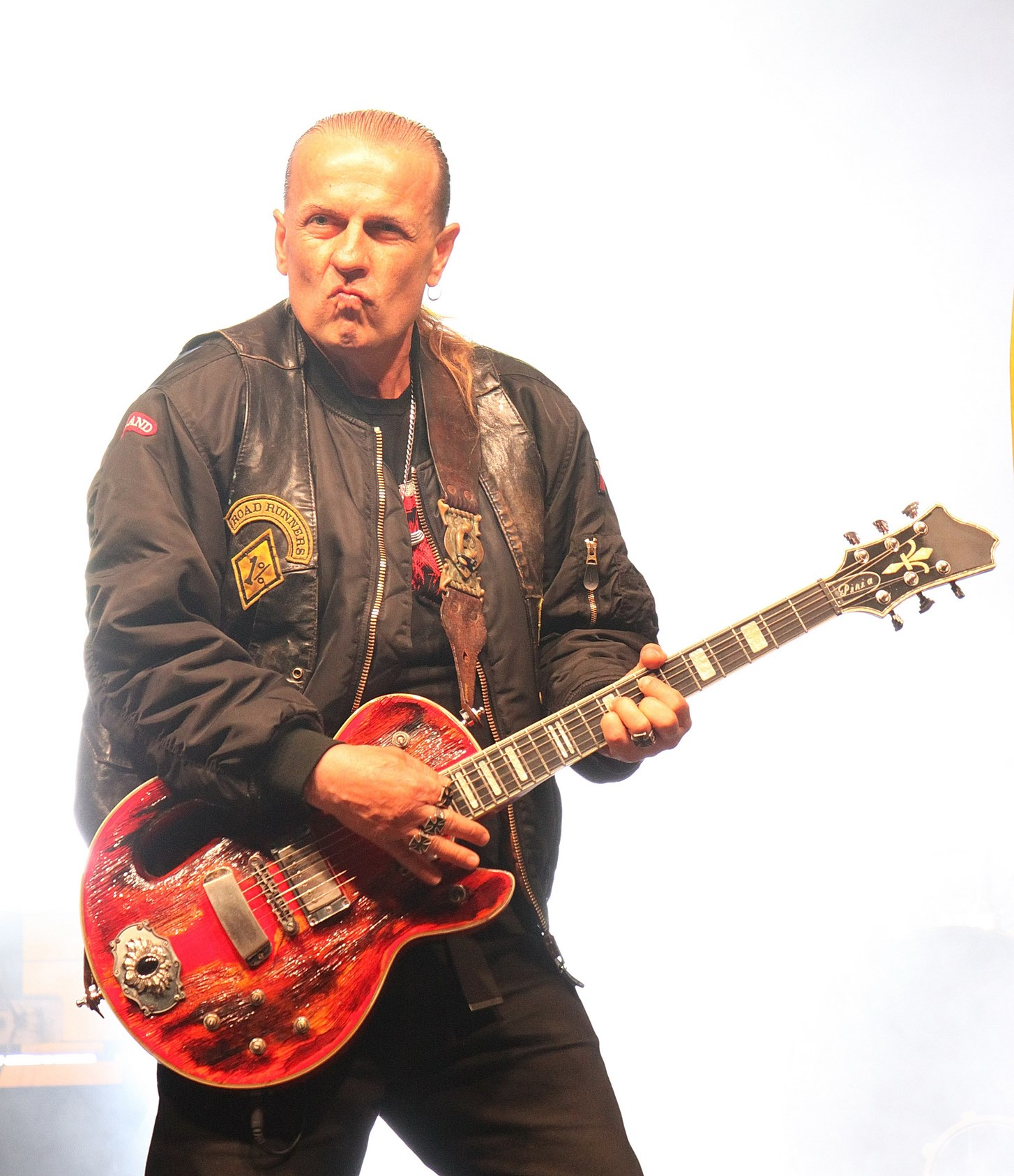 Złe Psy on stage (Andrzej Nowak)